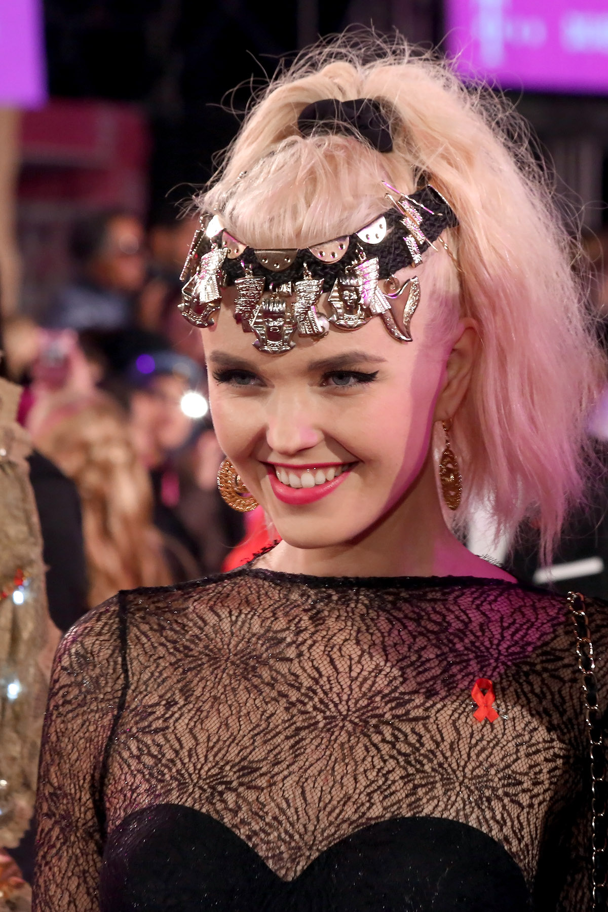 Bonnie Strange on the 'magenta carpet' at Life Ball 2013 at the square in front of the city hall of Vienna, Vienna, Austria.